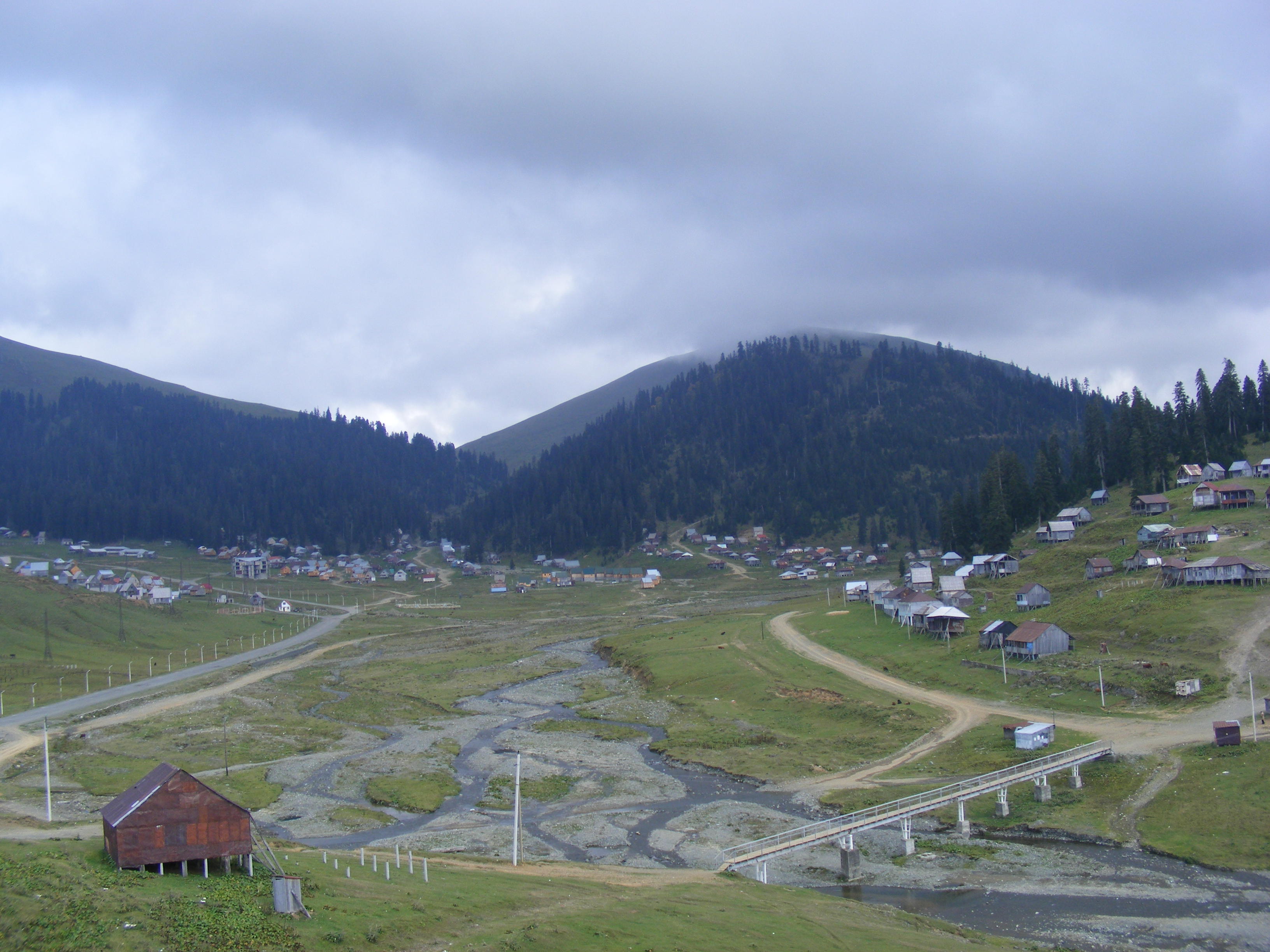 river bakhvistskali at Bakhmaro